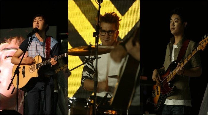 Busker Busker in June 15, 2012, during the Expo 2012 Yeosu.